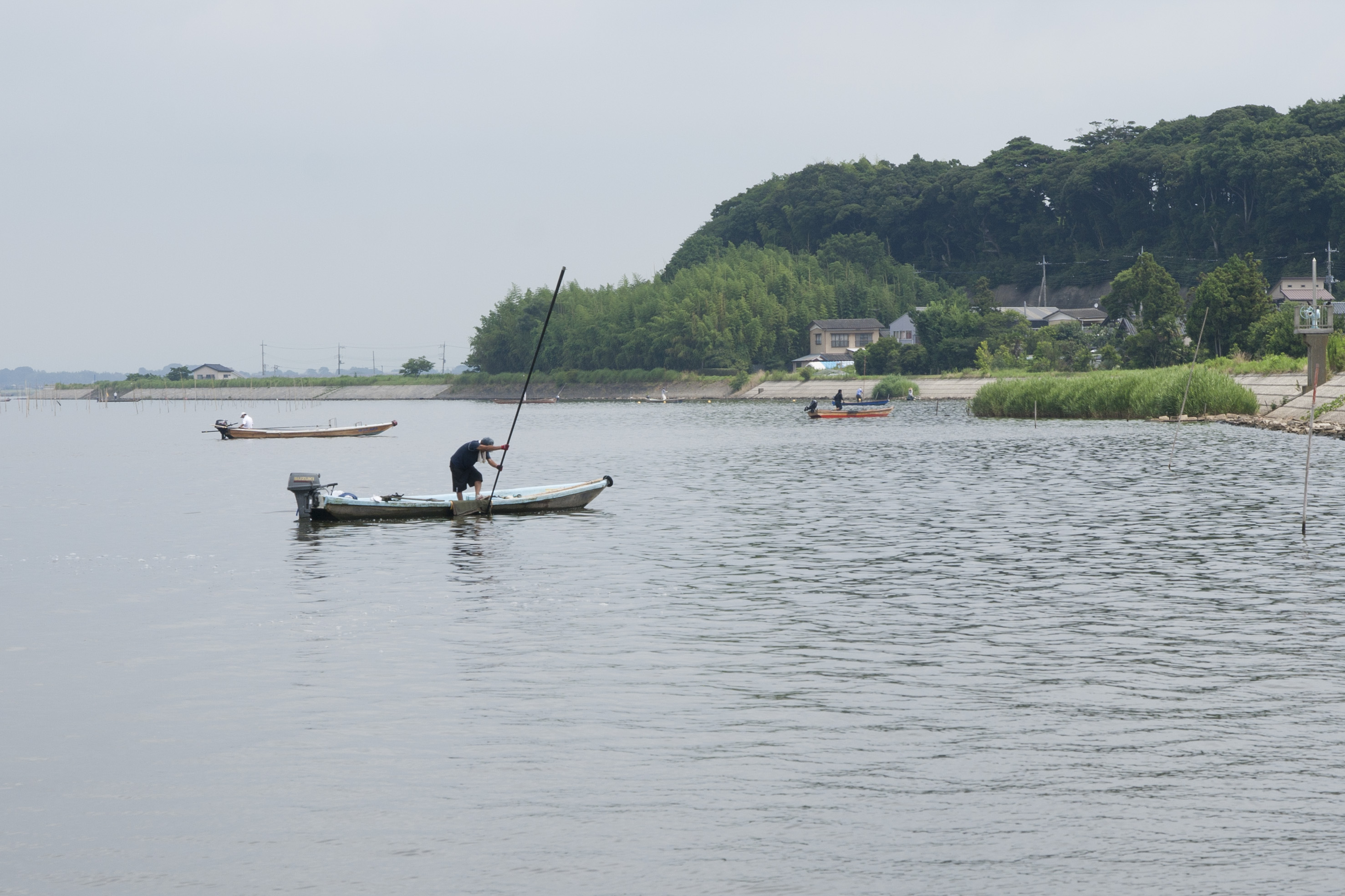 Lake Hinuma in Oarai Town, Ibaraki Prefecture, Japan